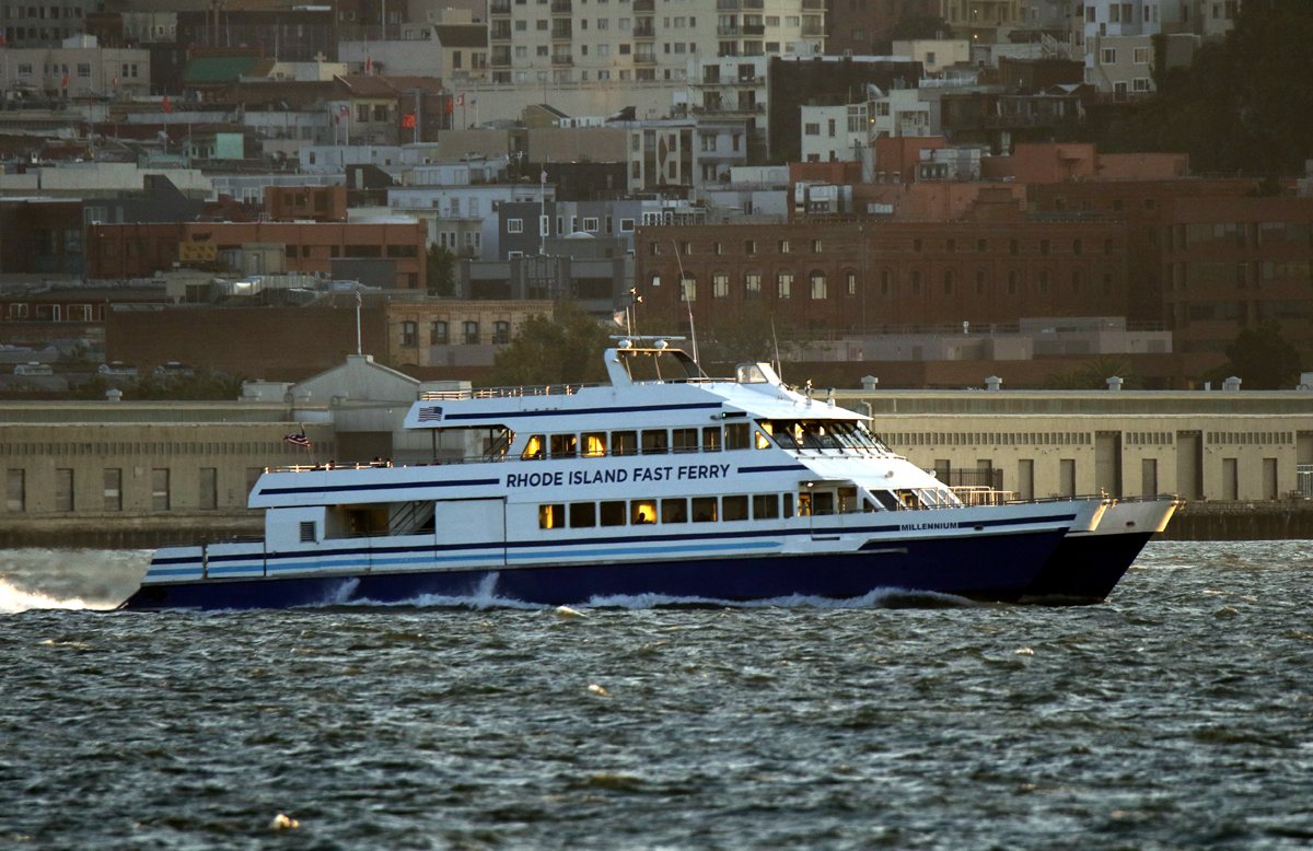 MV Millenium of Rhode Island Fast Ferry in service with Golden Gate Ferry. Photo taken 16 September 2019 from Treasure Island, San Francisco Bay.